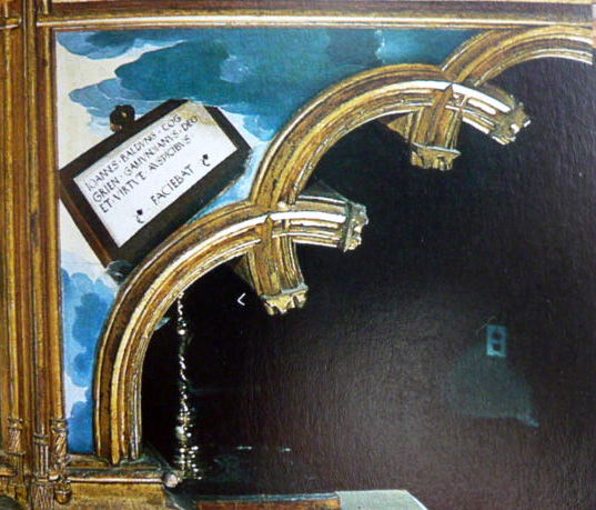 Hans Baldung High altar of Freiburg Minster; signature of the painter